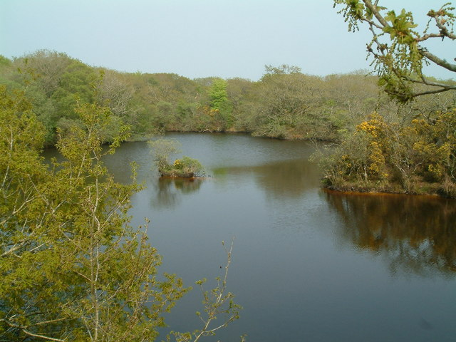 Redmoor nature reserve. Ponds formed from former tin mining pits, now a nature reserve